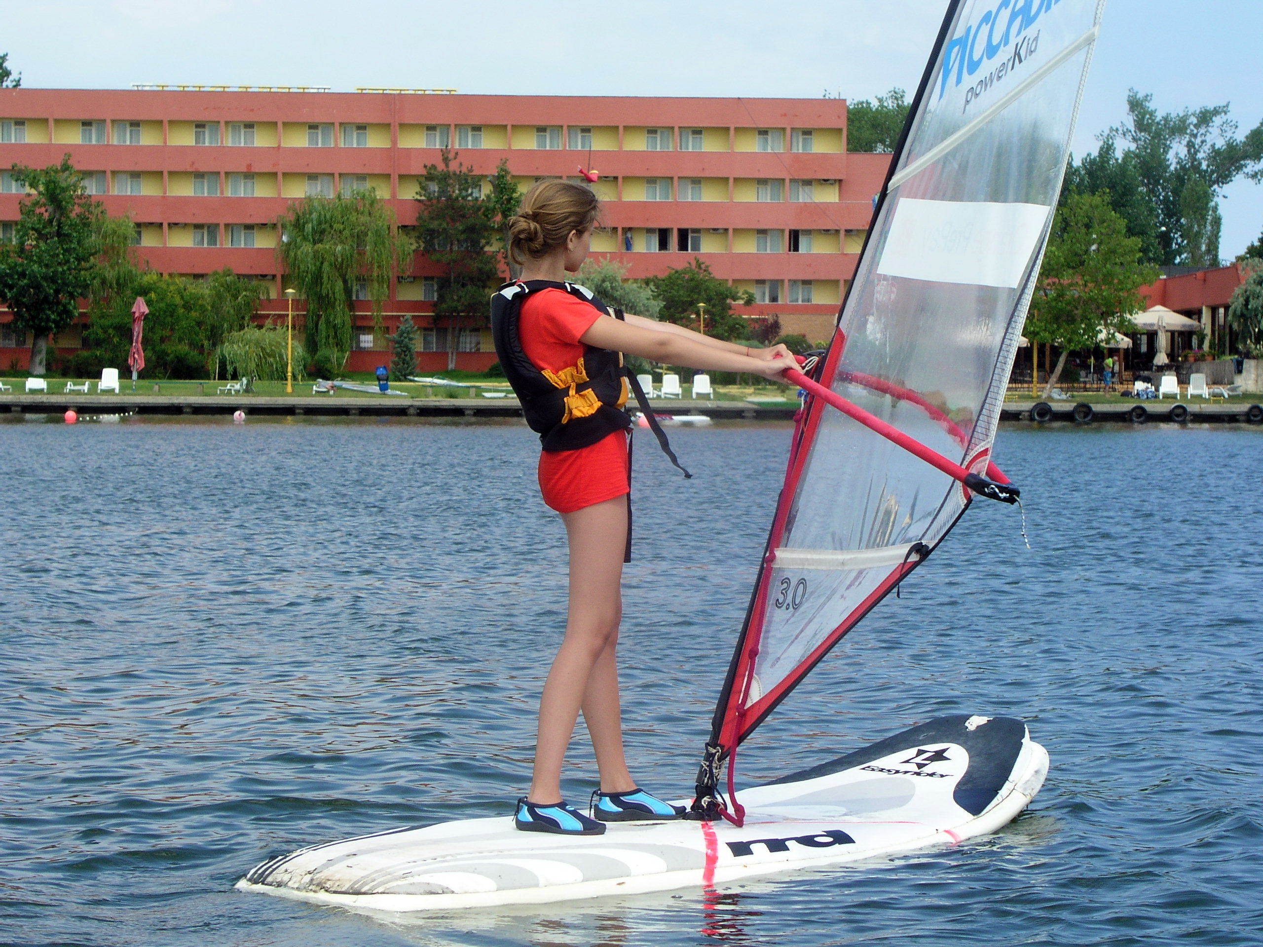 Girl at first windsurfing day .